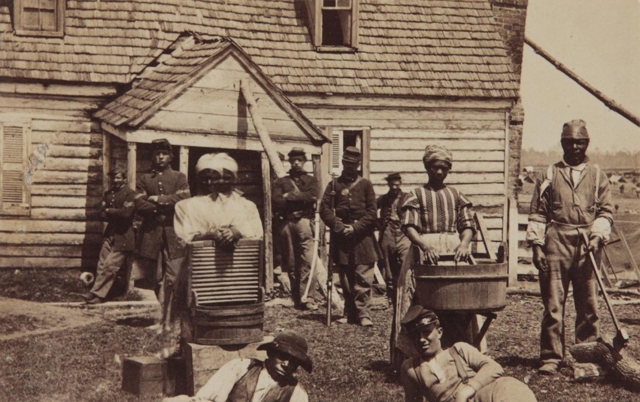 Text from below the photo: "Entered according to Act of Congress, in the year 1862, by Barnard & Gibson, in the Clerk's Office of the District Court of the District of Columbia." "Contrabands at Headquarters of General Lafayette," black-and-white photograph on carte de visite mount, by the American photographer Mathew Brady. 'Contrabands' was an expression coined by General Benjamin F. Butler to describe escaped slaves. Image courtesy of Randolph Linsly Simpson African-American collection, Beinecke Rare Book & Manuscript Library, Yale University, New Haven, Conn.